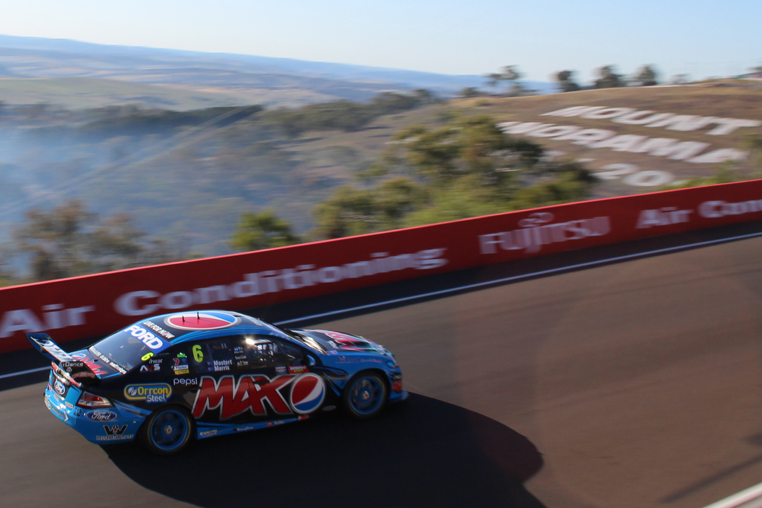 The race-winning Ford Falcon FG of Chaz Mostert and Paul Morris at the 2014 Supercheap Auto Bathurst 1000.